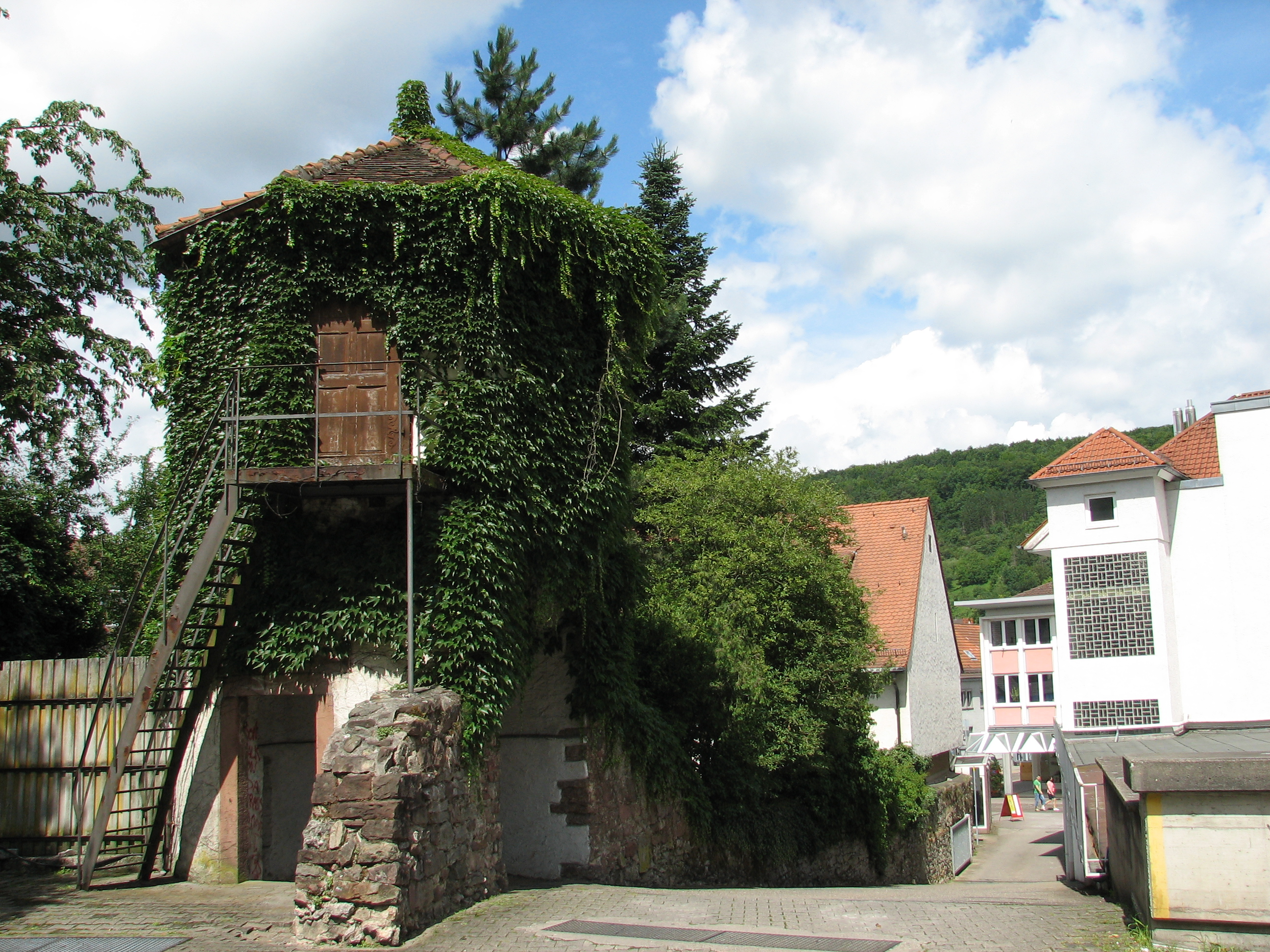 Ancient watchtower of Mosbach